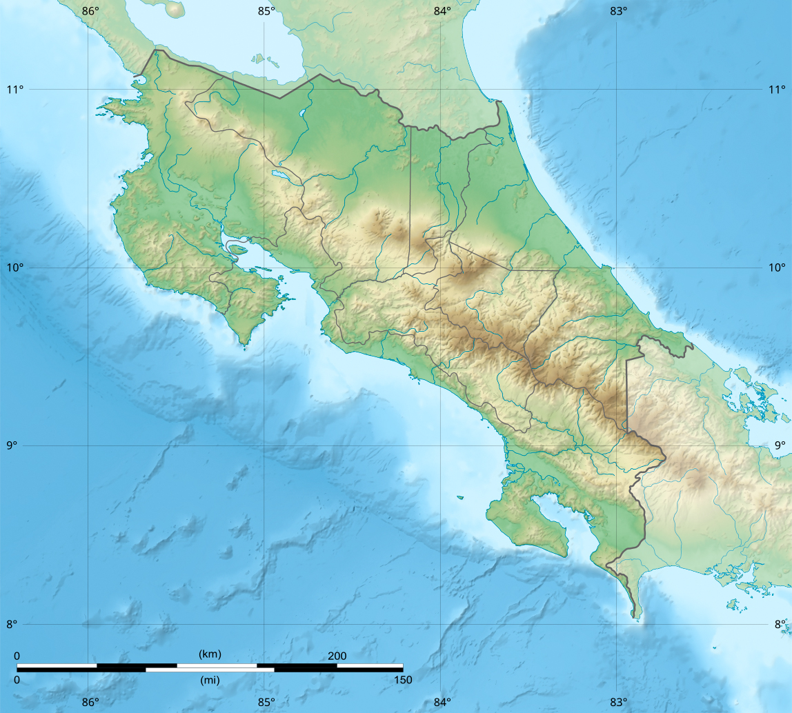 Blank relief map of Costa Rica for geo-location purpose.Note : The Isla del Coco, out of the map, is not shown.Scale : 1:14,816,000 (accuracy : about 3,7 km)